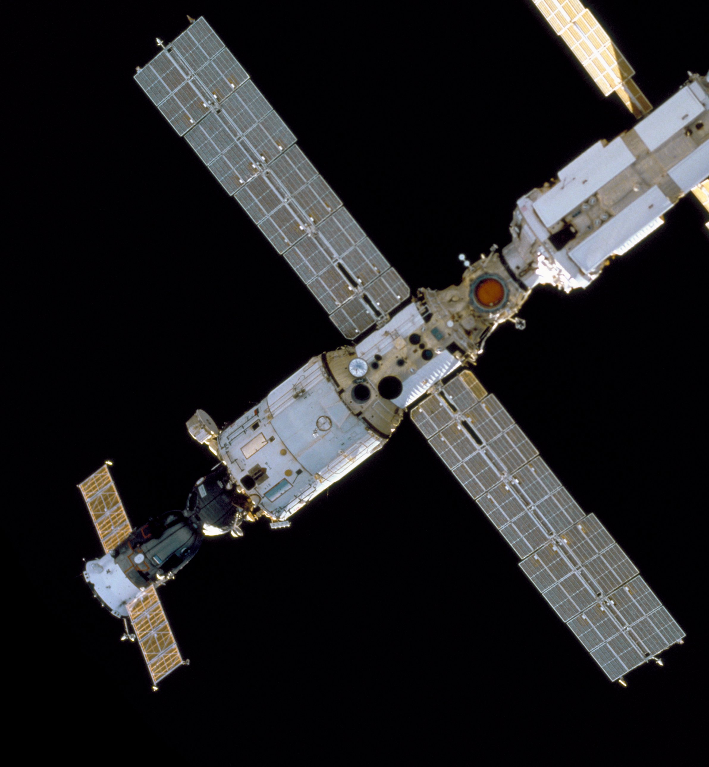 Taken during initial approach by the STS-97.